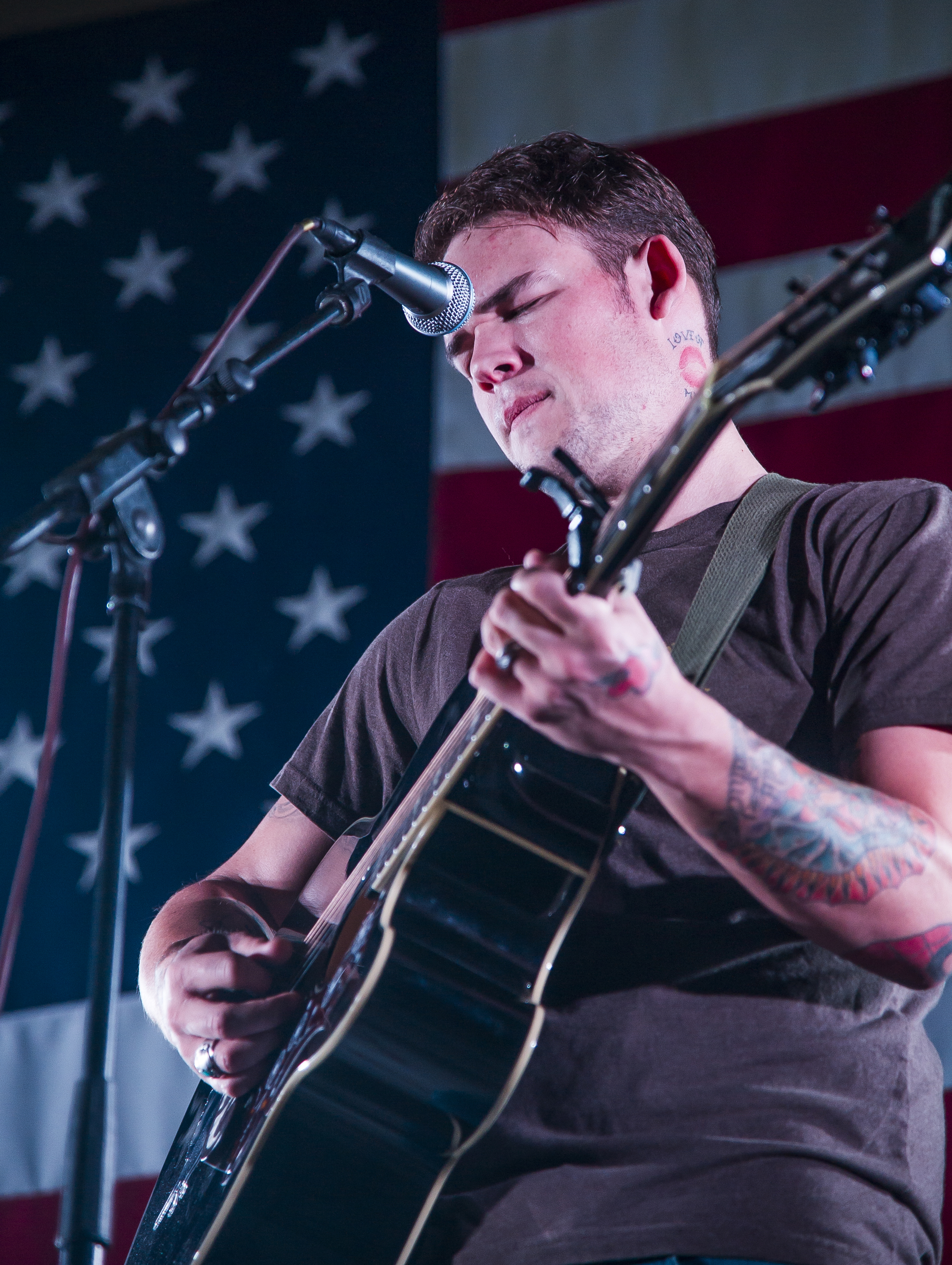 Audience members watch as singer/songwriter James Durbin performs at Transit Center at Manas, Kyrgyzstan, March 22, 2014. Durbin visited the Transit Center to perform for U.S. troops. Durbin, a finalist on Season 10 of "American Idol,” has released two albums since his debut on the show.